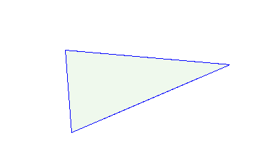 An acute triangle, by Toobaz (